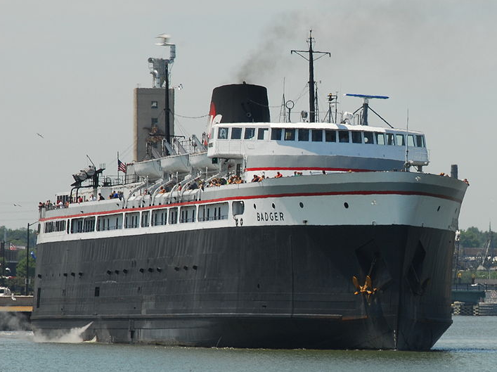 SS Badger Close-up crop derivitive